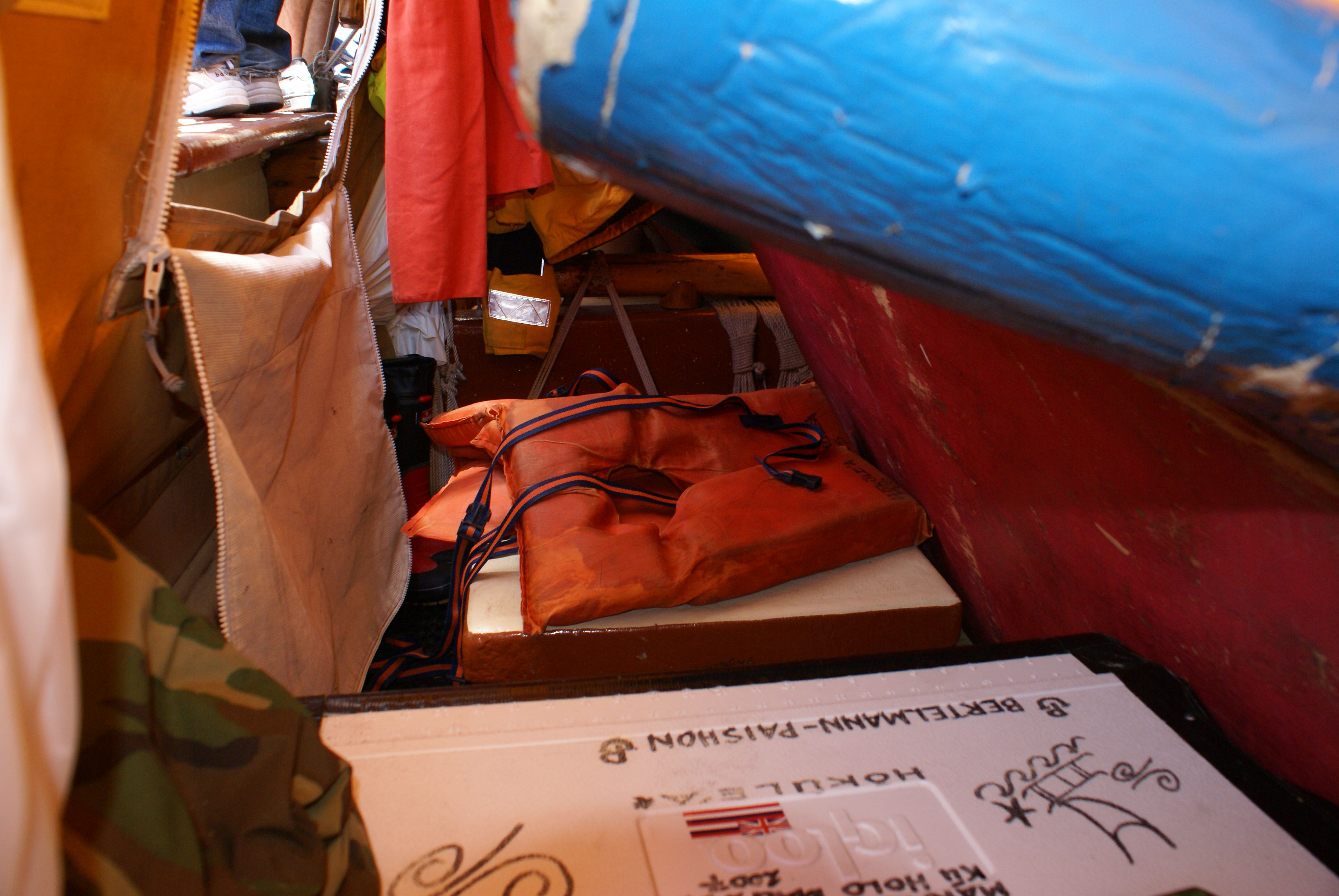 Hokule'a's compartment